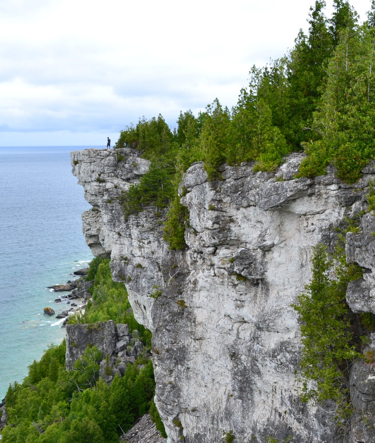 View from the Bruce Trail to the Georgian Bay and "Lion's Head"